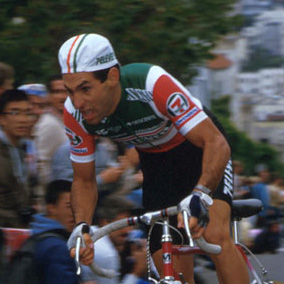 Doug Shapiro wears a white, red and green jersey in the 10th 1984 Coors Classic in Italy.